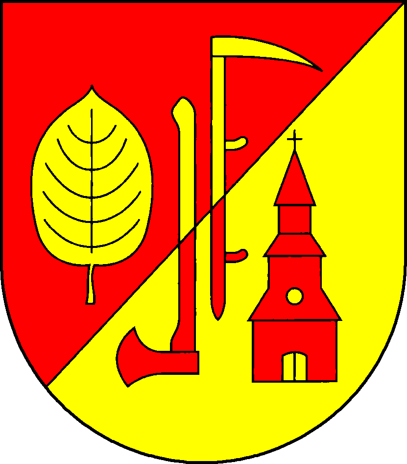 Coat of arms of the municipality Brunstorf in Schleswig-Holstein, Germany.